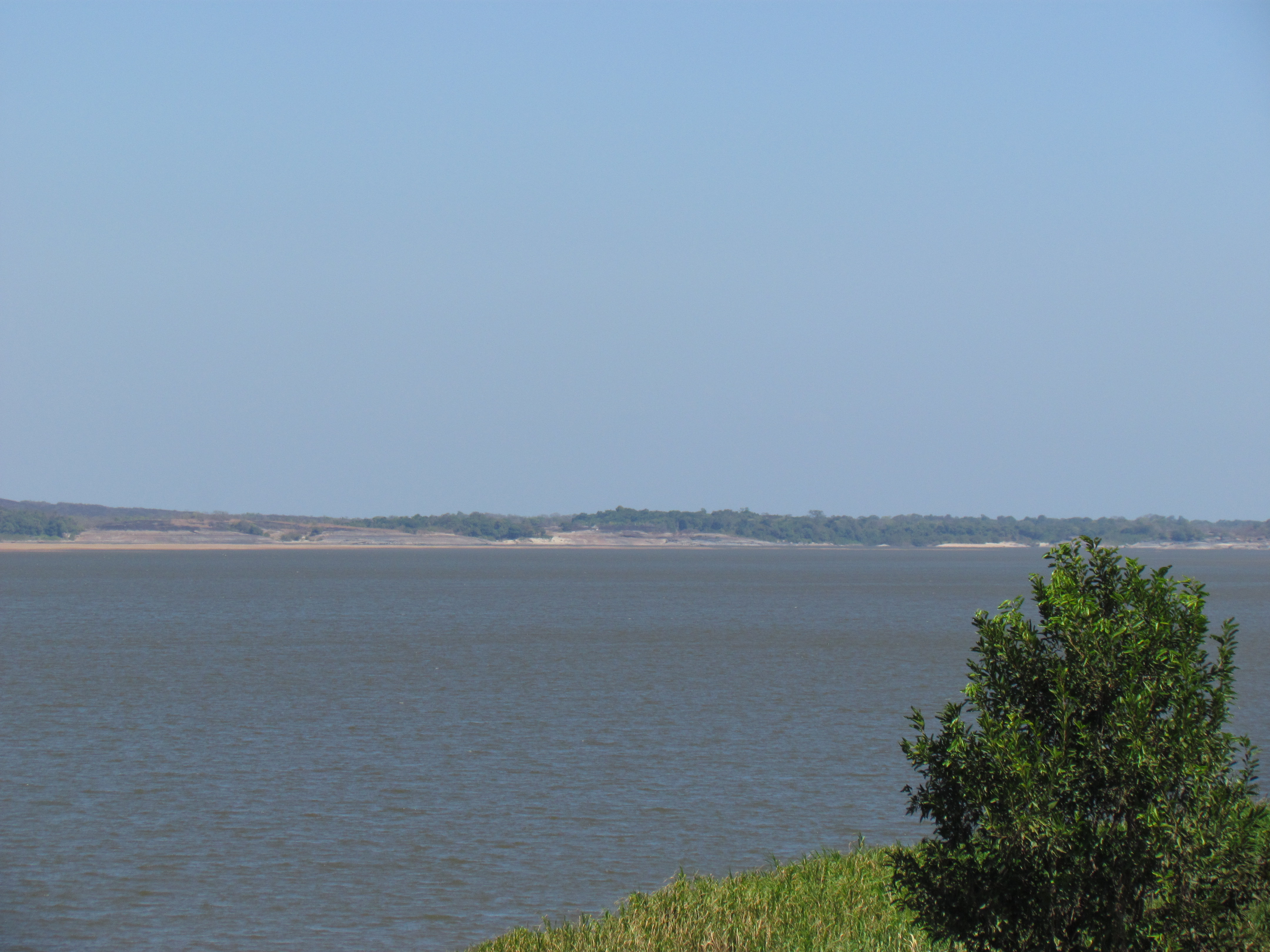 Viajando por las entrañas de Venezuela